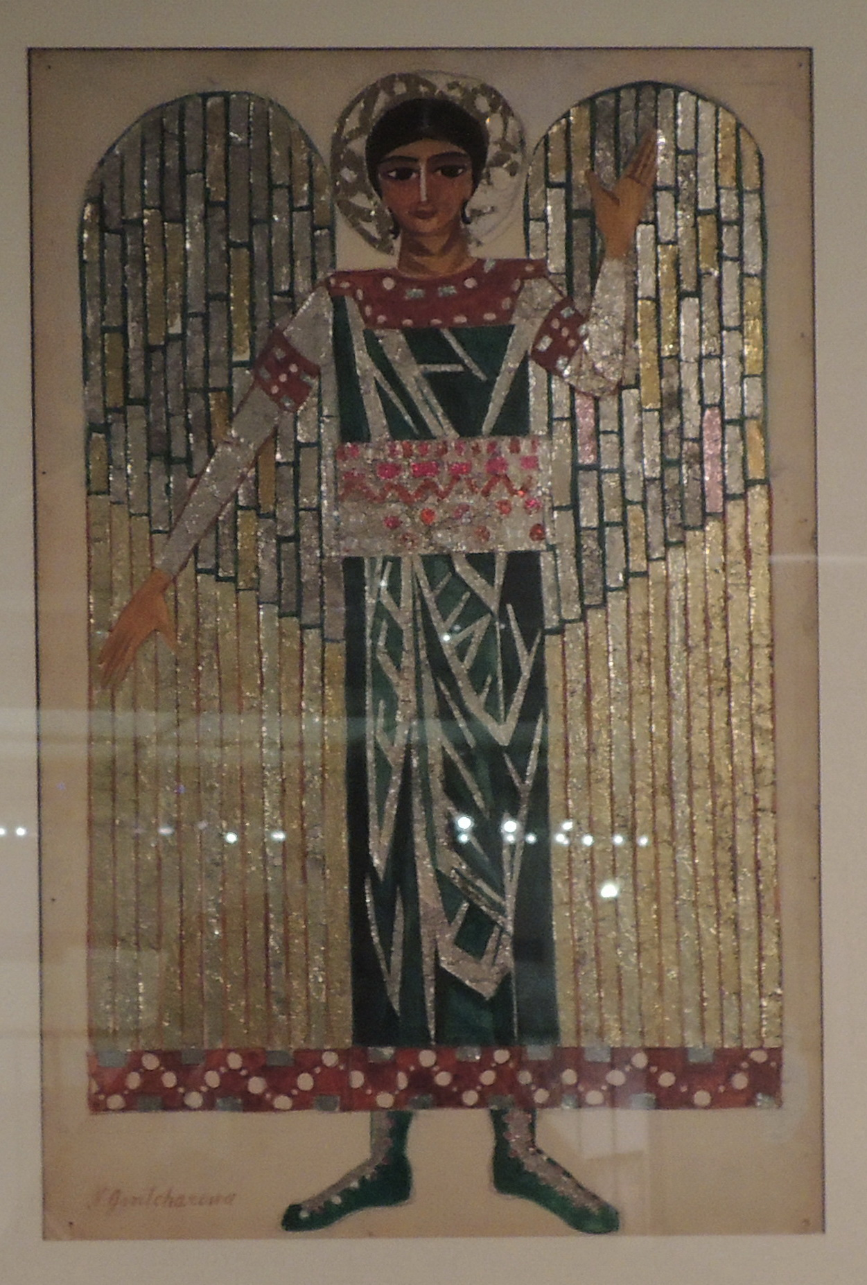 Natalia Goncharova's sketches for "Liturgy" ballet.